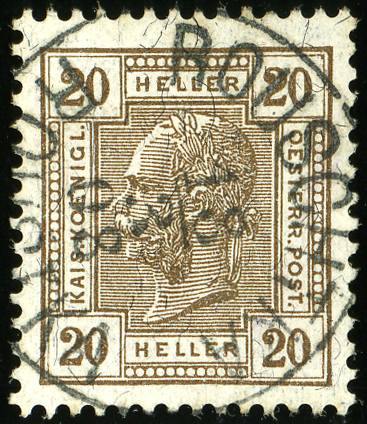 Austrian KK 20 heller stamp, issue 1906, bilingual cancelled ROUSCHTKA - ROUSTKA (Moravia) in 1908.